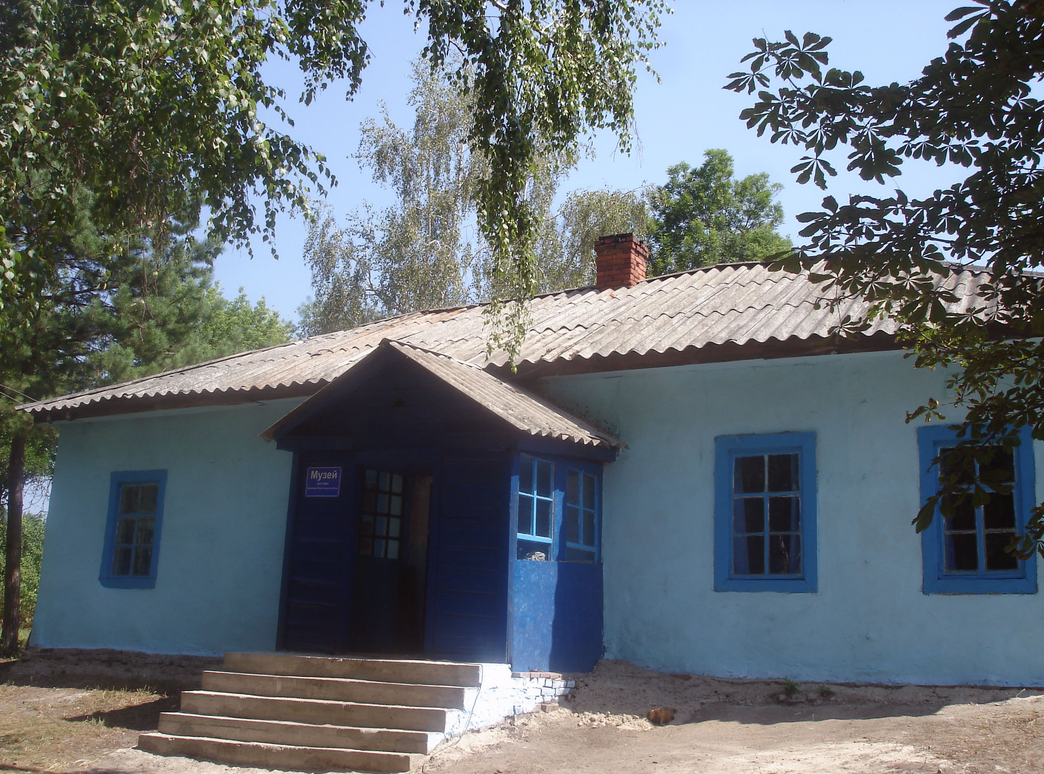 Museum of the Ukrainian War of Independence, dedicated to Petro Dyachenko